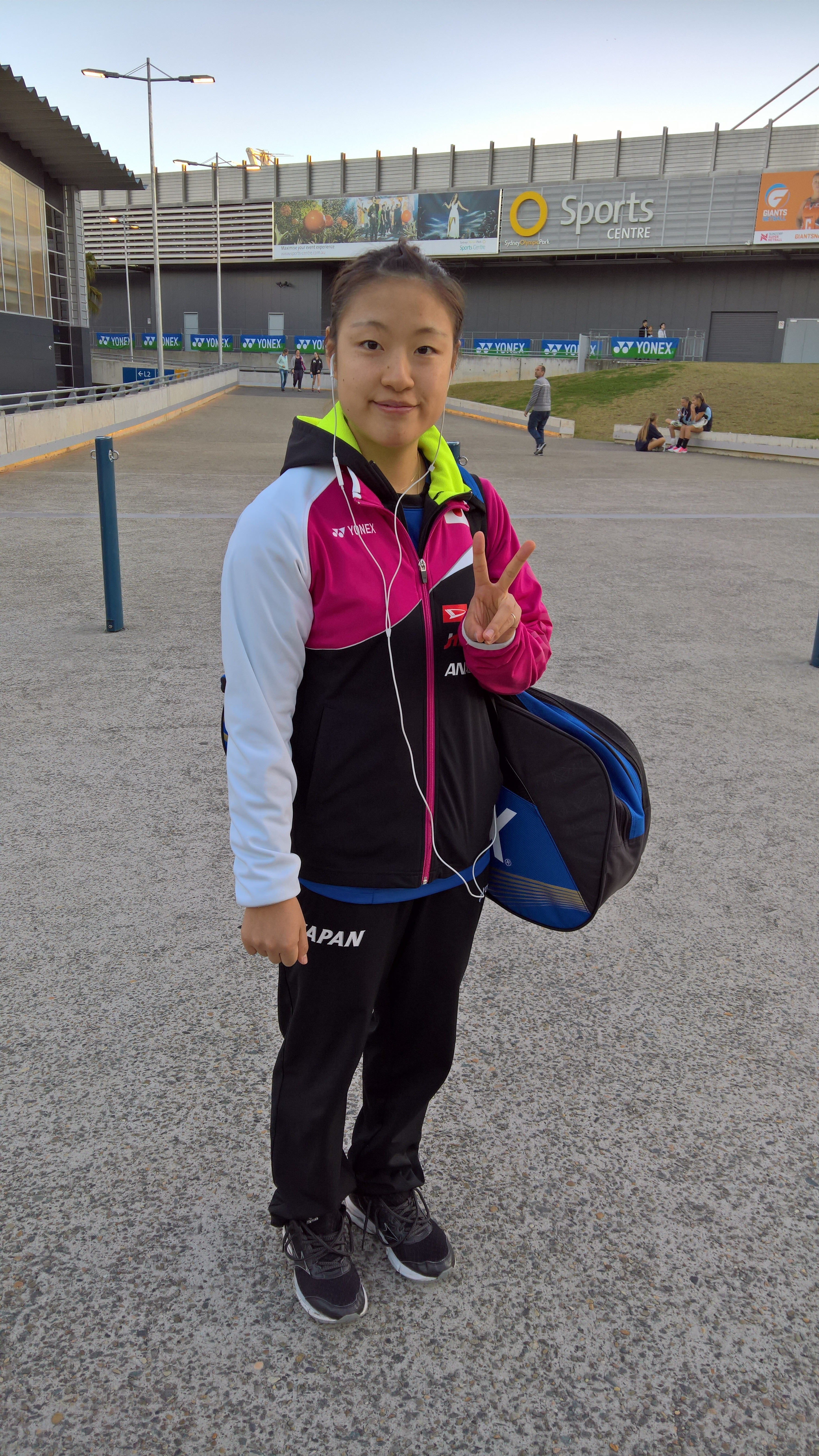 Okuhara went back to hotel after SF at Australia Open 2017